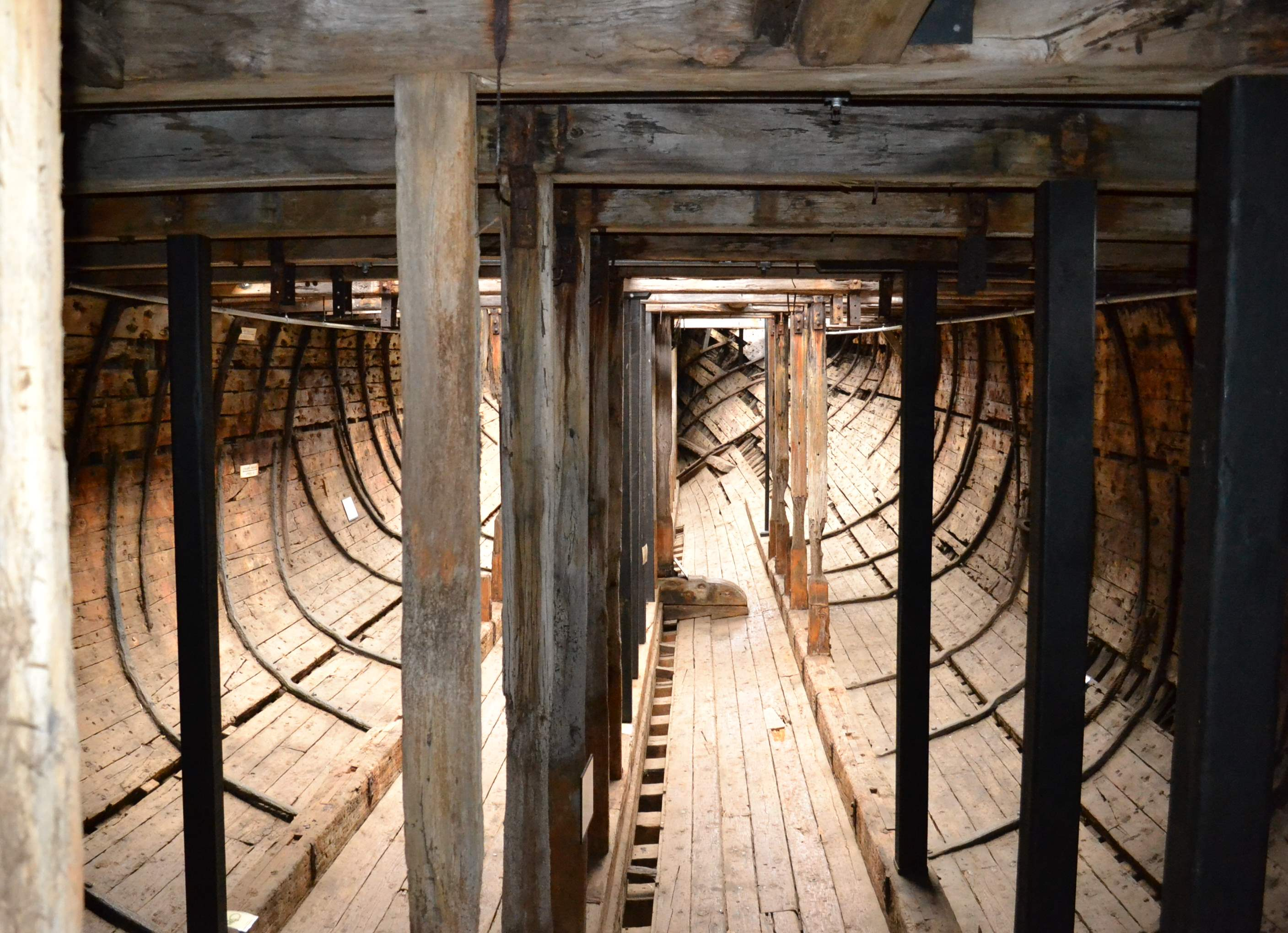 Hold of the Edwin Fox, showing condition of the hull and lines of the ship. Scarph joints can be seen at left.